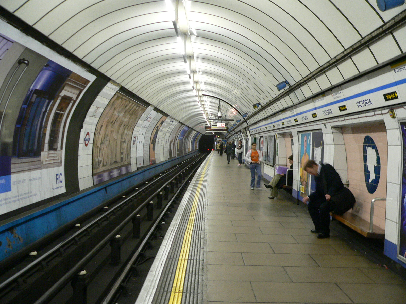 The southbound Victoria Line platform at Victoria London Underground station on 24 October 2005. The stamp-like portrait on the tiling is of Queen Victoria, after whom the station, and therefore in turn the line, is named.